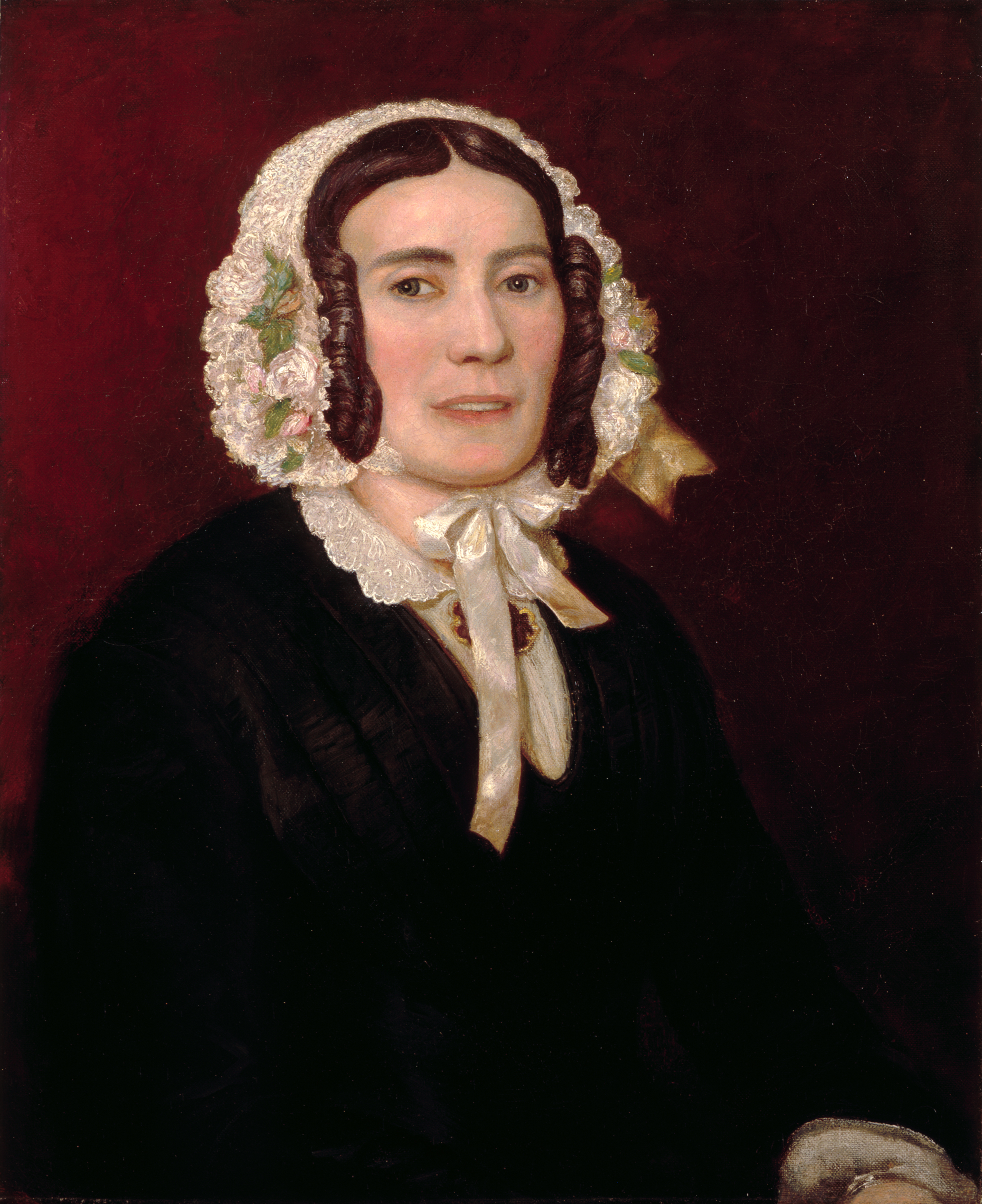 Portrait of Abigail Powers Fillmore.